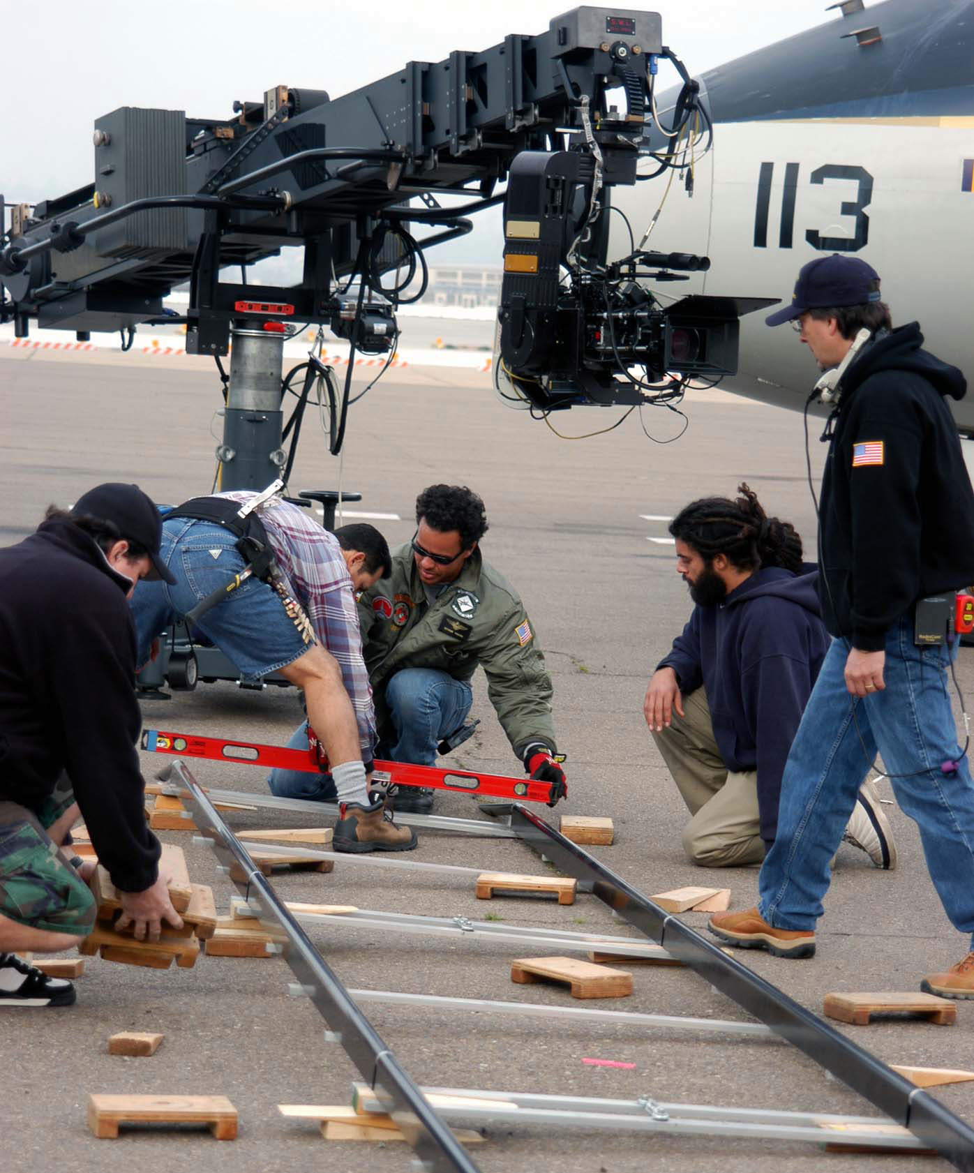 Crewmembers for the hit television show JAG set up for the next shot outside the Transient Aircraft Line on board Naval Air Station North Island, Calif. The cast and crew spent two days at North Island filming various scenes for an upcoming episode.